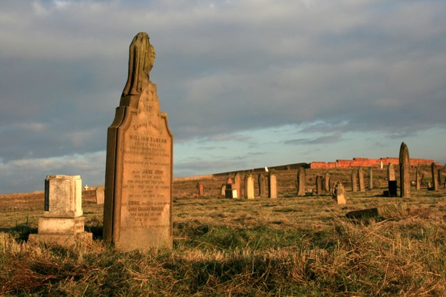 Spion Kop Cemetery Or officially the Hartlepool Cemetery. Opened in 1856 and designed by John Dobson, an architect of some standing. The Spion Kop name became in use after the Boer War battle. It was in use in at least 2005 but is now designated as a nature reserve on account of its sandy nutrient poor alkaline soil producing a rich dune grassland that is unique on Teesside. The grass has just been given its annual cut .